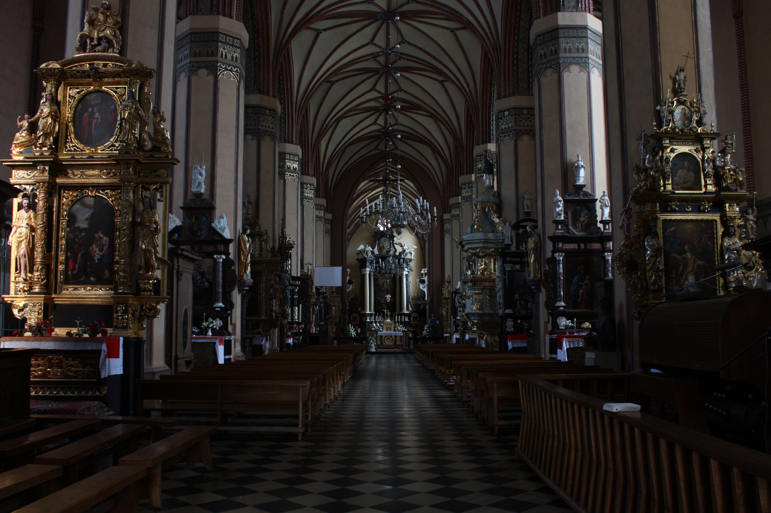 Frombork Cathedral